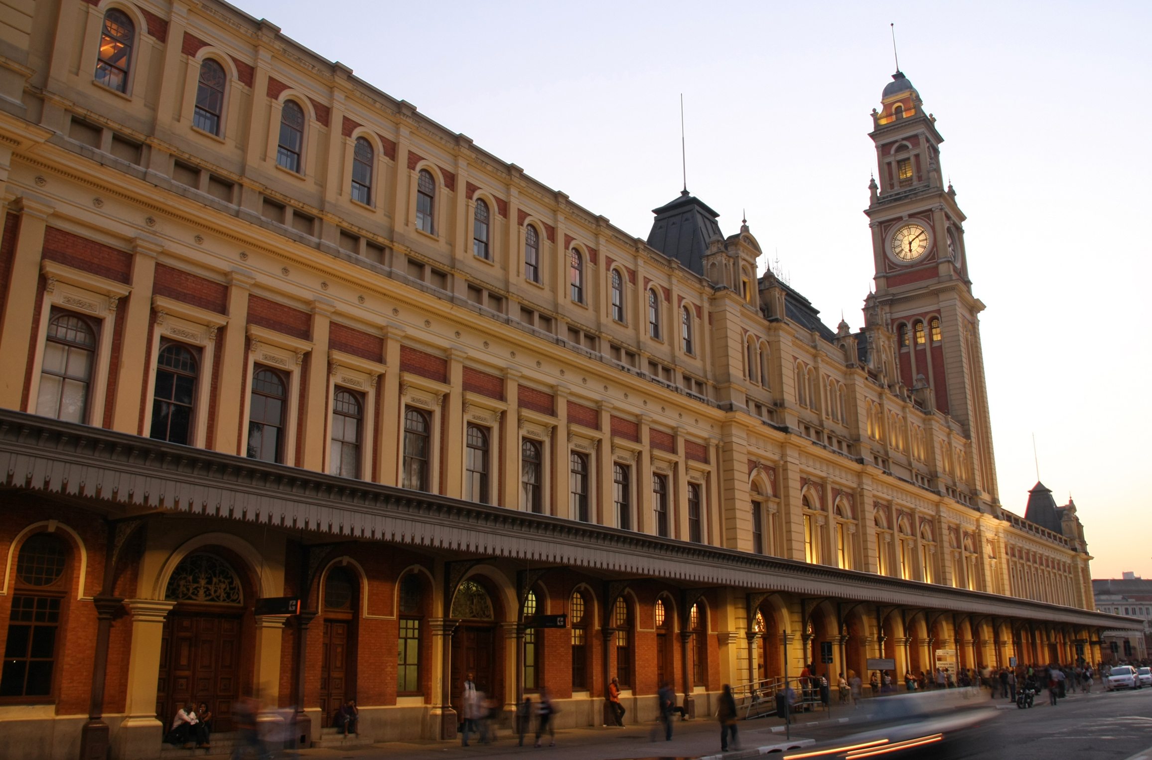 A história da cidade de São Paulo está preservada no centro. Durante muito tempo, a vida da cidade ficou restringida a essa região, que na passagem do século XIX para o XX recebeu importantes edificações, como a Estação da Luz. Sua estrutura de ferro foi importada da Inglaterra, assim como sua arquitetura, inspirada no Big Ben e a abadia de Westminter. Prazo indeterminado São Paulo (SP). Foto: Jefferson Pancieri.